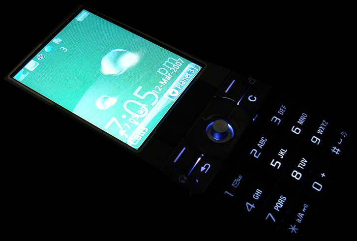 Image of a Sony Ericsson K800i in complete darkness